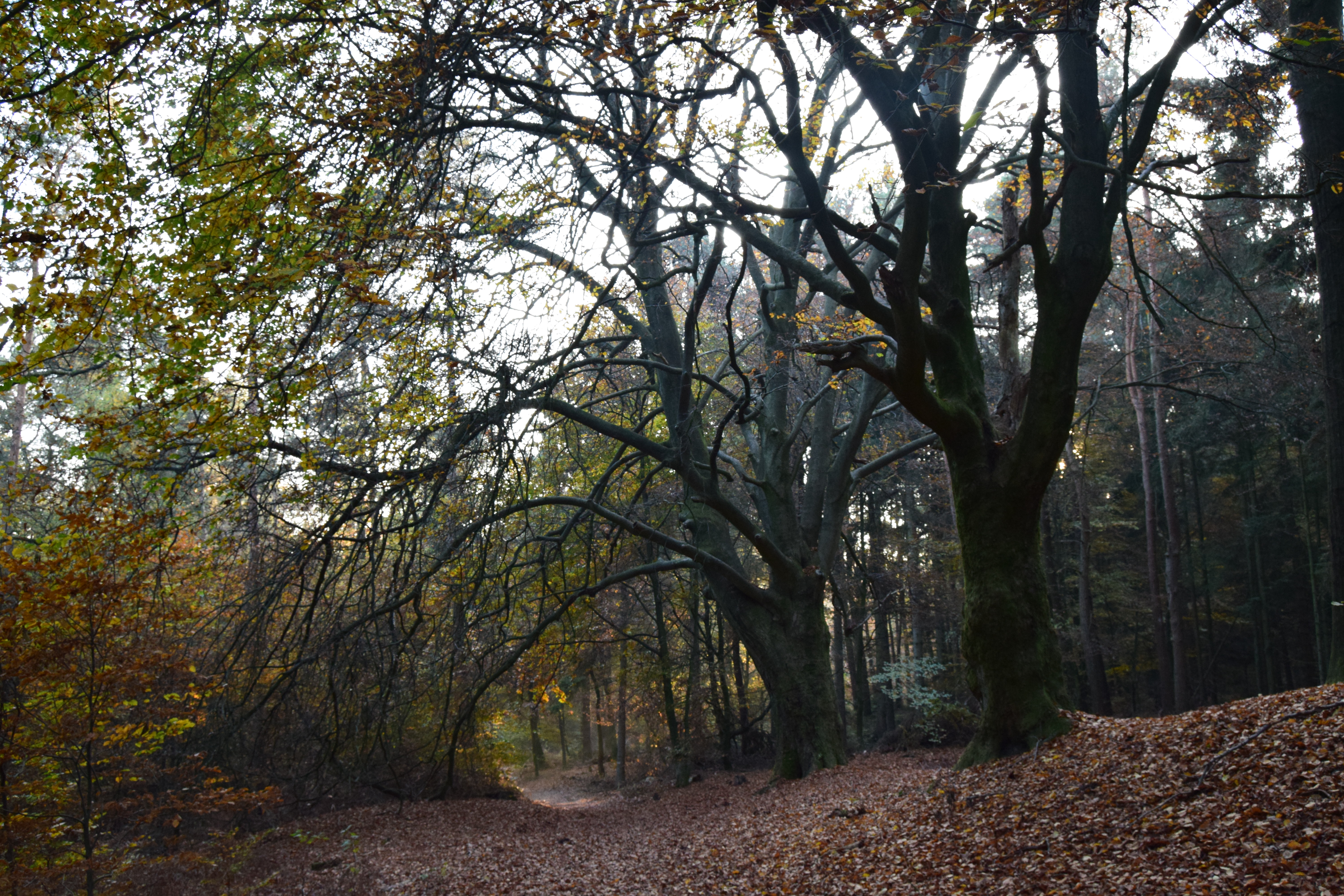 Path through the Bergherbos (Montferland, the Netherlands)